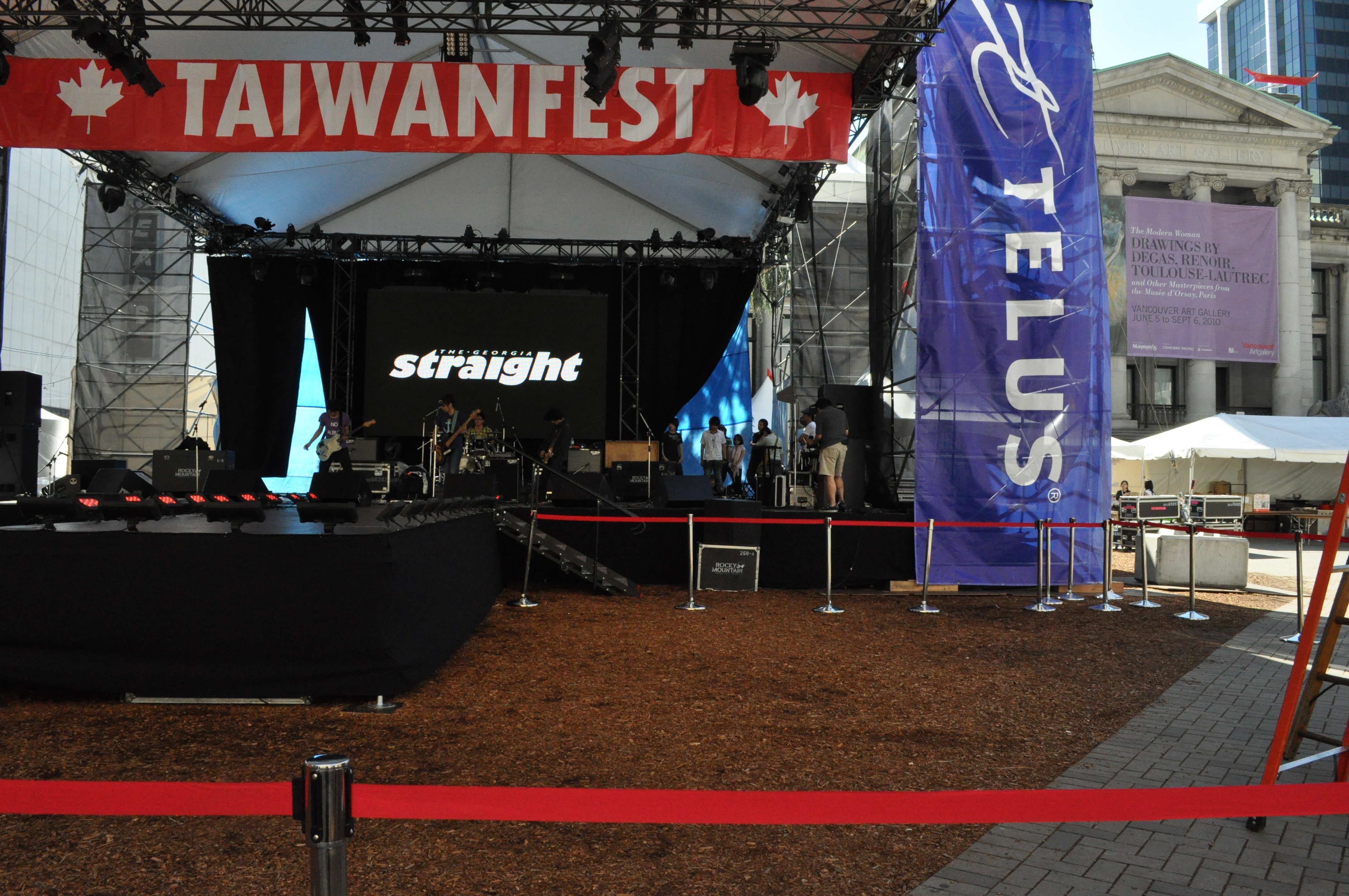 Taiwanfest stage at Vancouver Art Gallery, Vancouver, BC.